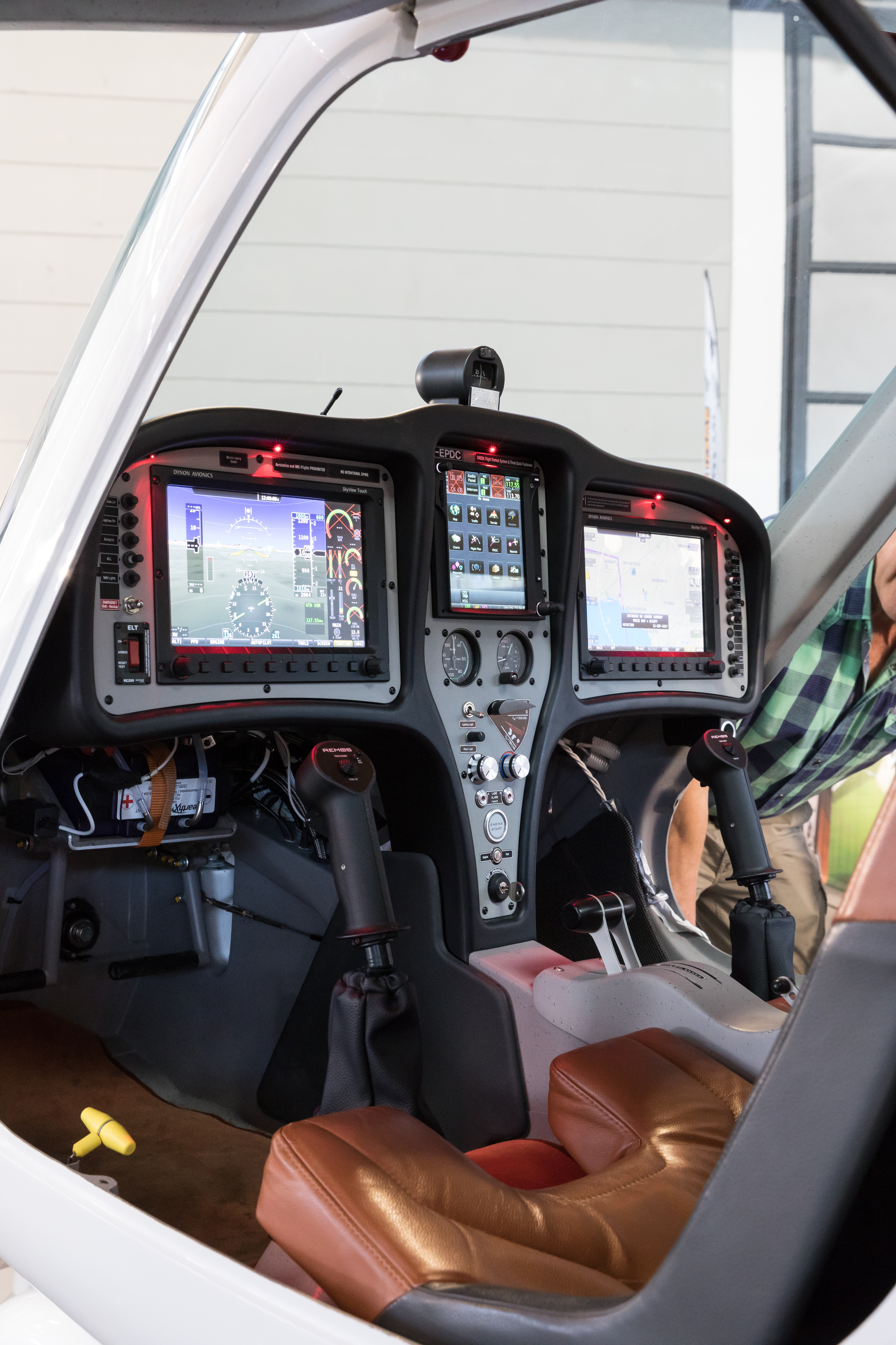 Cockpit of a Remos GX at AERO Friedrichshafen 2018